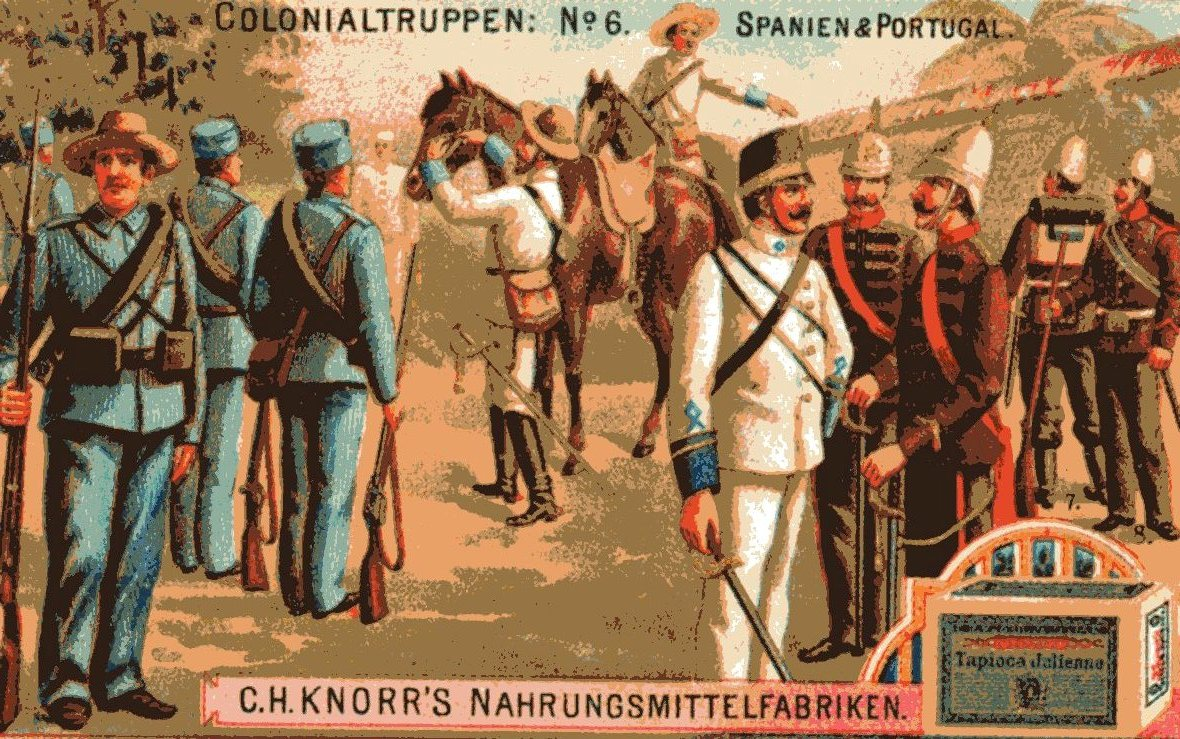 Spanish and Portuguese colonial troops circa 1900. In the left, Spanish troops with so-called rayadillo uniform with blue-white stripes. Contemporary illustration.